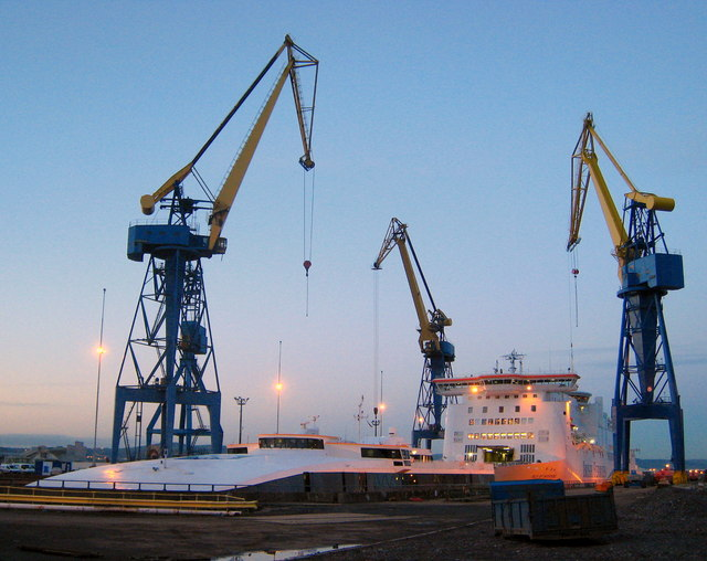 'Isle of Inishmore' and 'Jonathan Swift' in Belfast. The Irish Ferries operated vessels 'Jonathan Swift' and 'Isle of Inishmore', seen here in dry dock at Harland and Wolff in Belfast. To the foreground is the 'Jonathan Swift', a small fast ferry that operates on the Dublin-Holyhead route. Only the top of her is visible in this picture. Behind is the 'Isle of Inishmore', a larger conventional RORO ferry that operates on the Rosslare-Pembroke route. for more information on the vessels and the routes they operate. 597088 gives a good example of the 'Inishmore' at work. for some related images. See also 647985